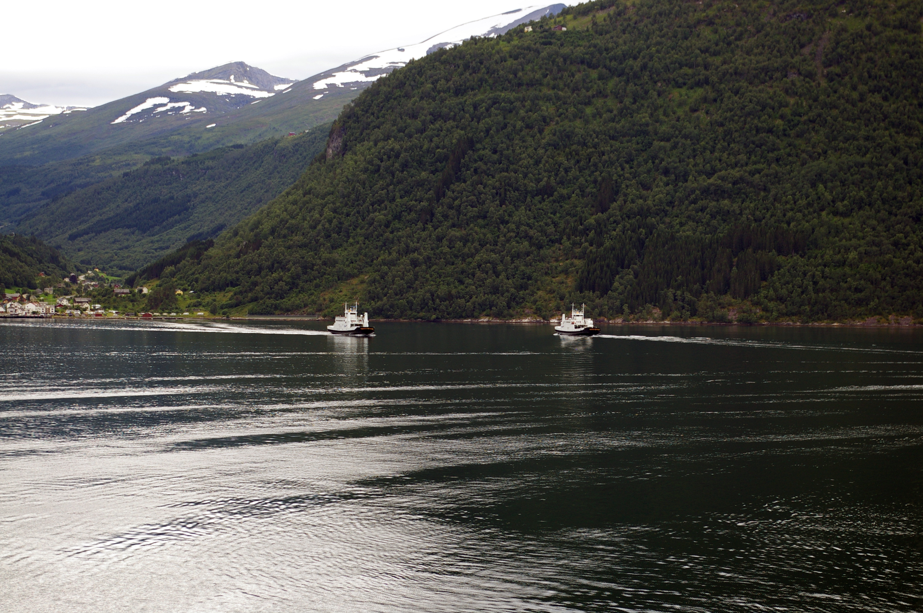 Norddalsfjorden in Møre og Romsdal, Norway. Near Eidsdal.